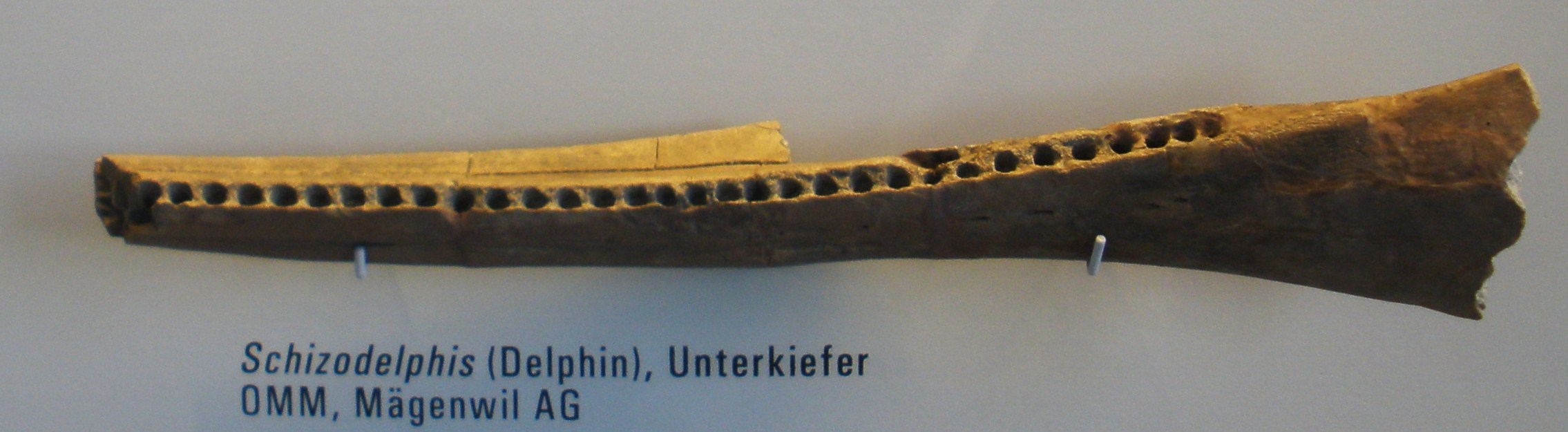 fossil schizodelphis